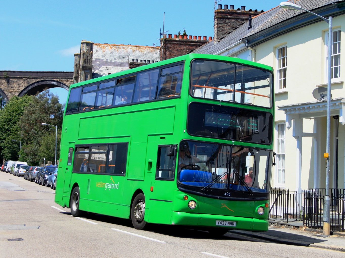 Shining in its new Western Greyhound livery, their number 495 (an ALX400 registered Y437NHK) heads down St Geroge's Road into Truro.